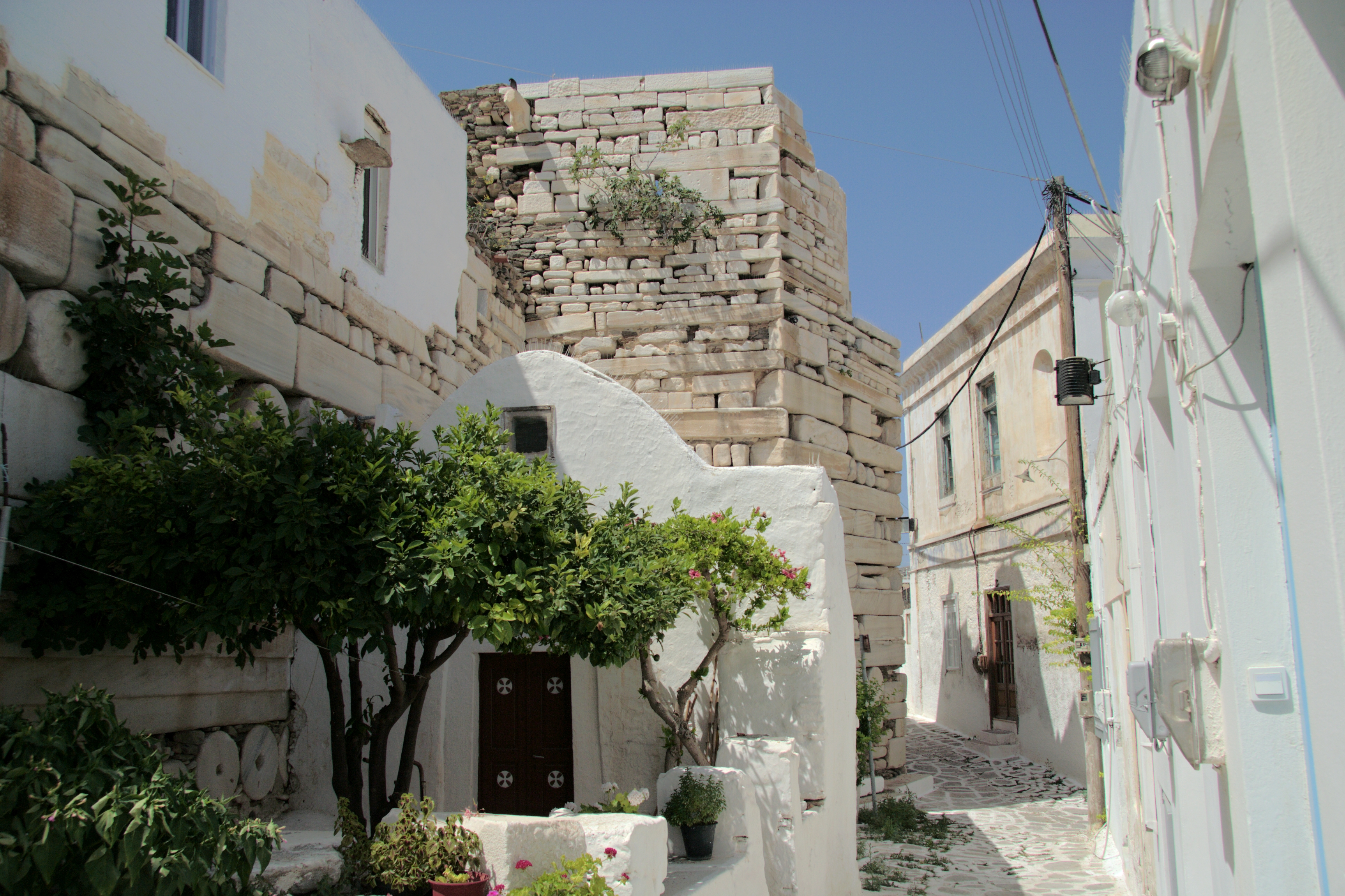 Kastro in Parikia on Paros.